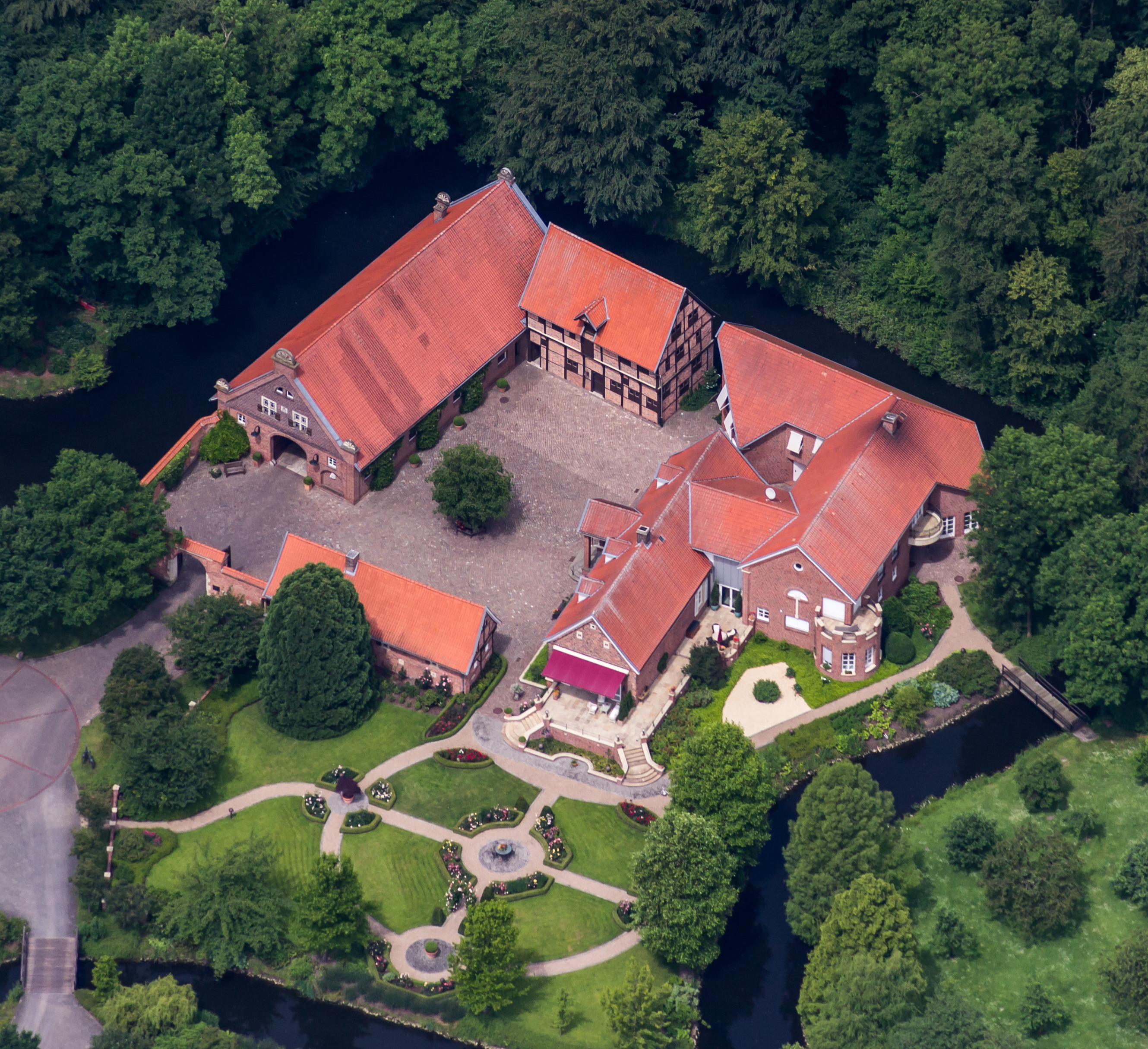 Giesking Manor near Appelhülsen, Nottuln, North Rhine-Westphalia, Germany